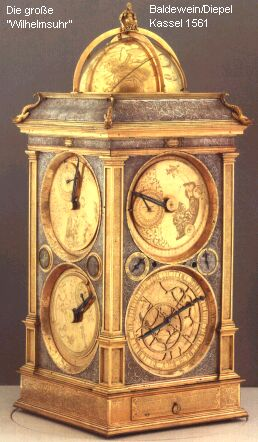 Photograph of an exhibit: Baldewein astronomical clock 1561 Kassel. This artwork is old enough so that it is in the public domain. Photography permitted in the museum without restriction.